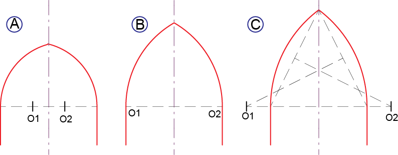 Ogives